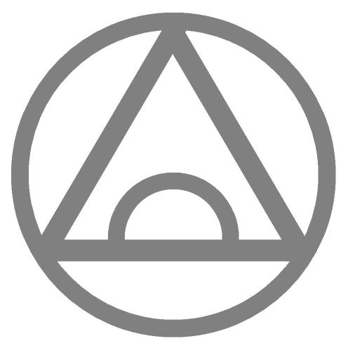 Symbol of Ai Khanoum. Own work. Reference: Narain, "The Indo-Greeks".